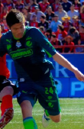 Santos player Oribe Peralta